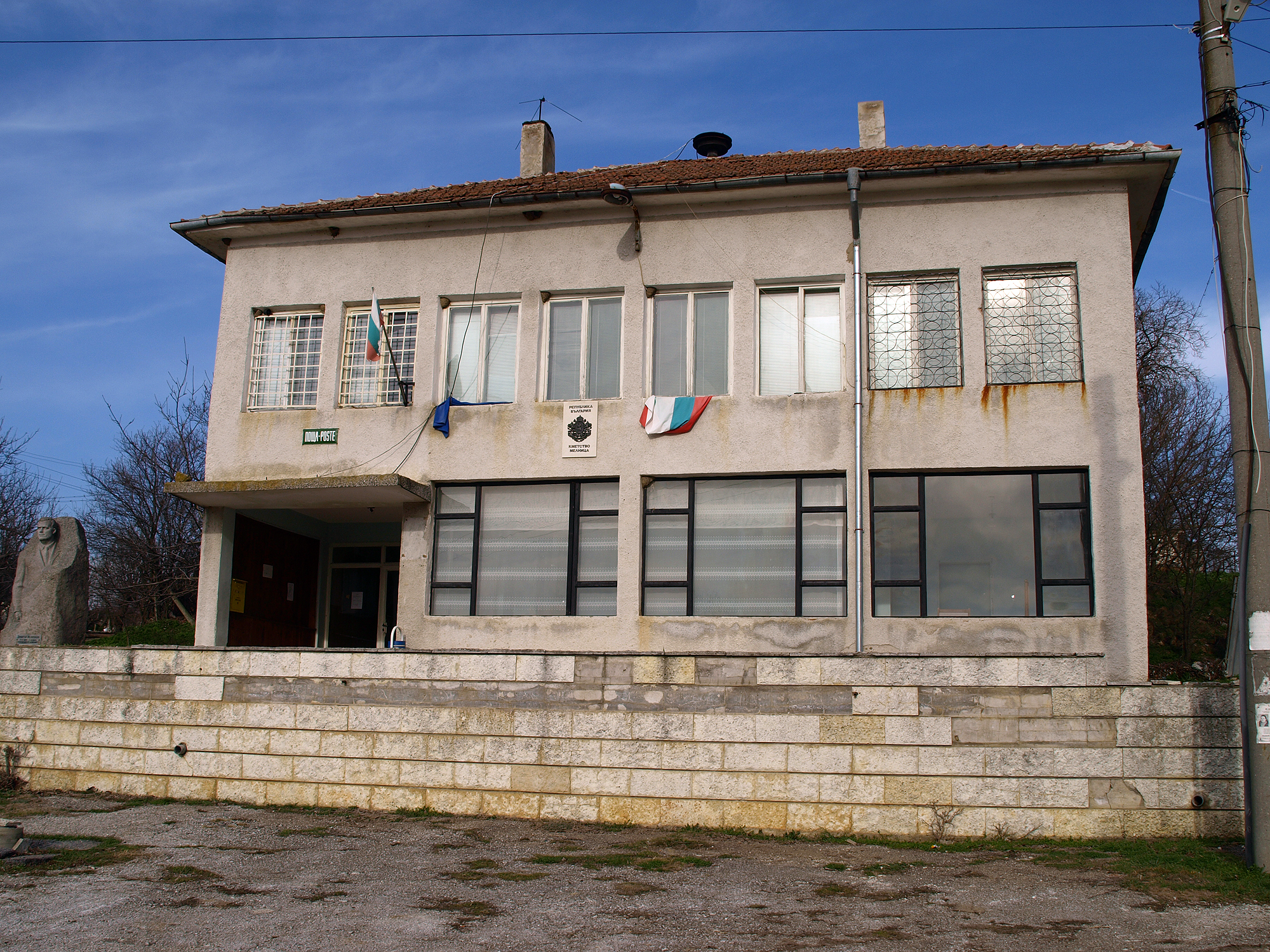 Melnitsa townhall, Yambol district, Bulgaria